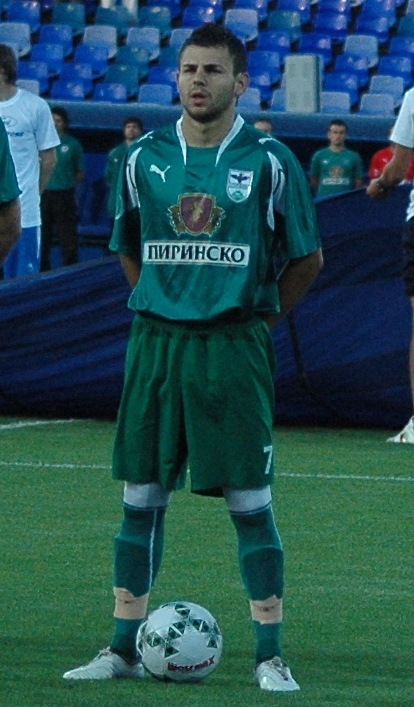 Spas Delev